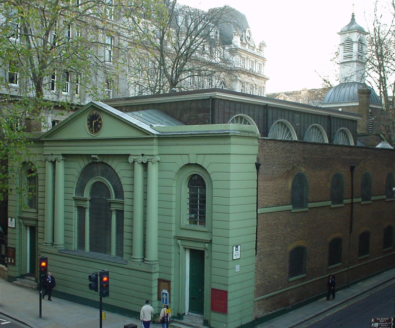 St Botolph-without-Aldersgate Church, Aldersgate Street, London